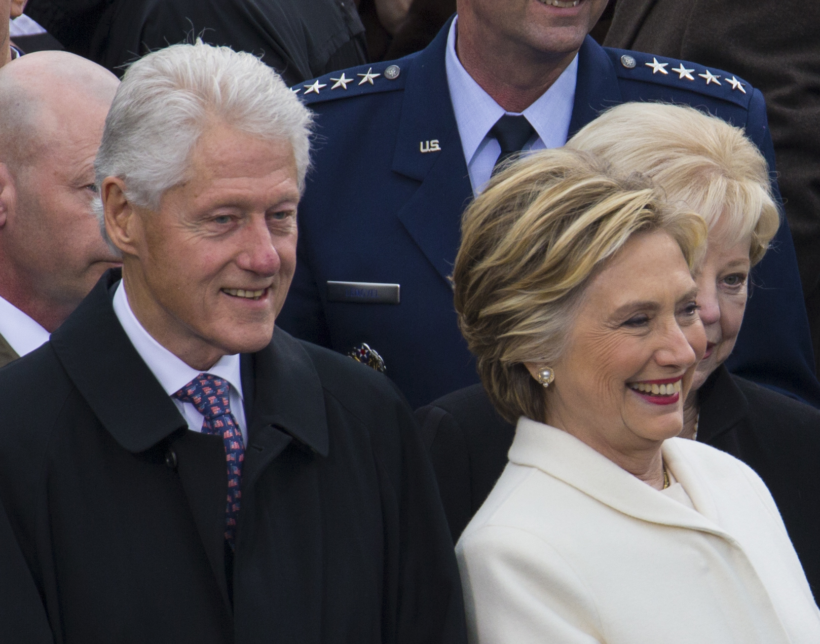 The 42nd President of the United States Bill Clinton and his wife the 67th Secretary of State Hillary Rodham Clinton attend the 58th Presidential Inauguration at the U.S. Capitol Building, Washington, D.C., Jan. 20, 2017. More than 5,000 military members from across all branches of the armed forces of the United States, including Reserve and National Guard components, provided ceremonial support and Defense Support of Civil Authorities during the inaugural period. (DoD photo by U.S. Marine Corps Lance Cpl. Cristian L. Ricardo)